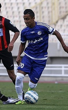 Omid Sing